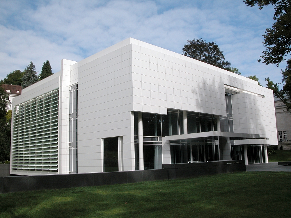 Museum Frieder Burda, Baden-Baden, Germany